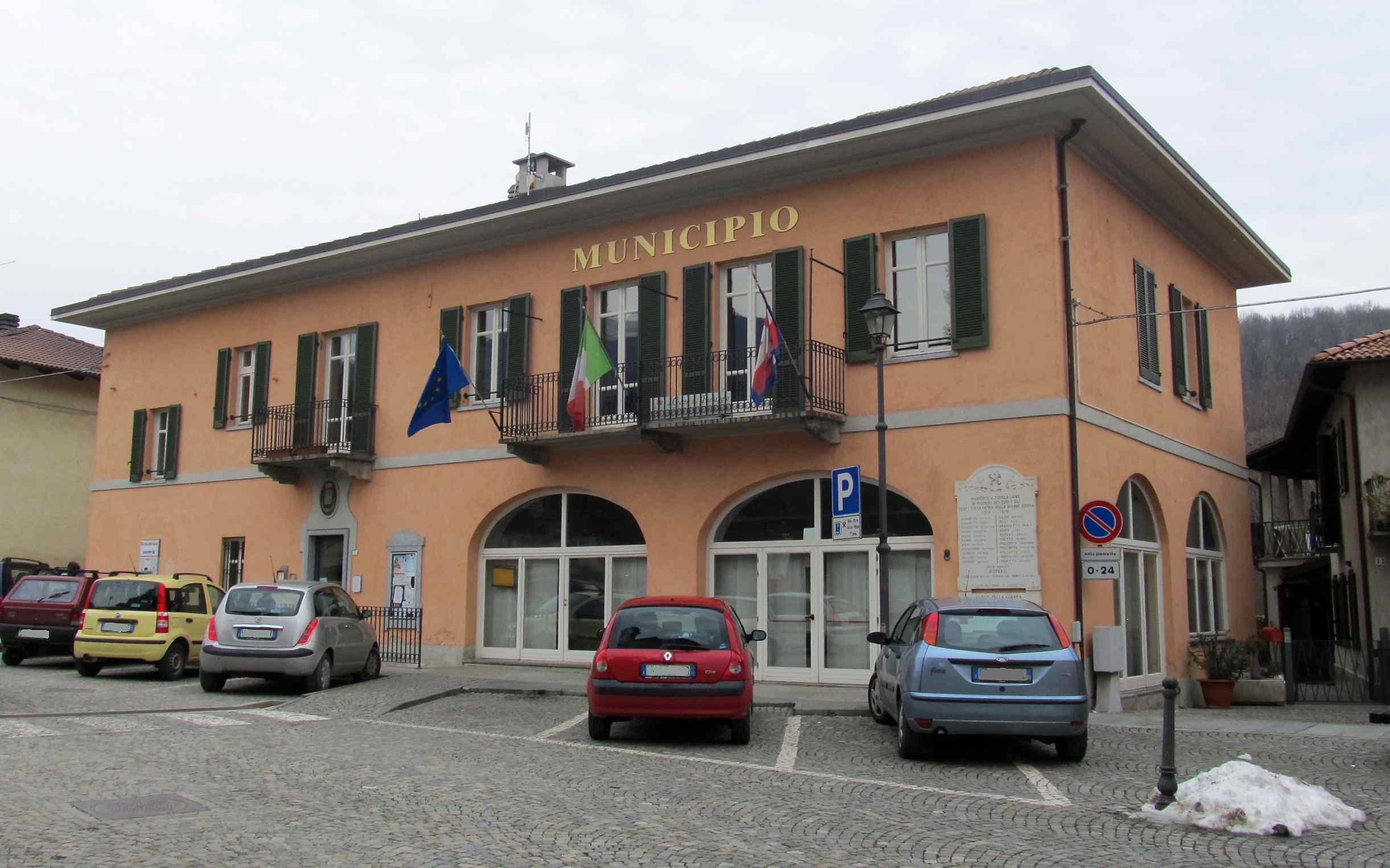 San Pietro Val Lemina (TO, Italy): town hall